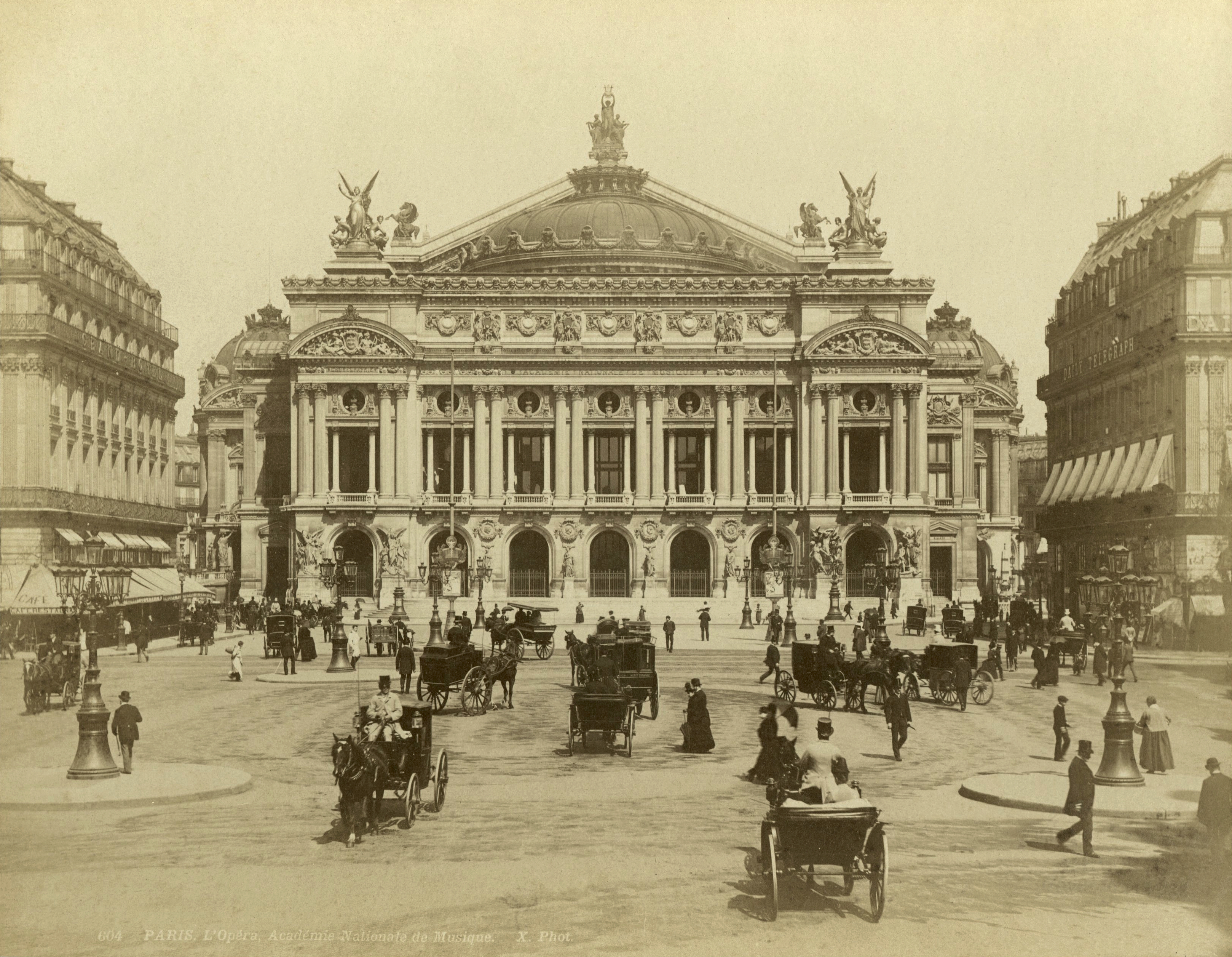 A view of the front of the Opera de Paris, 9th Arrondissement, Paris.